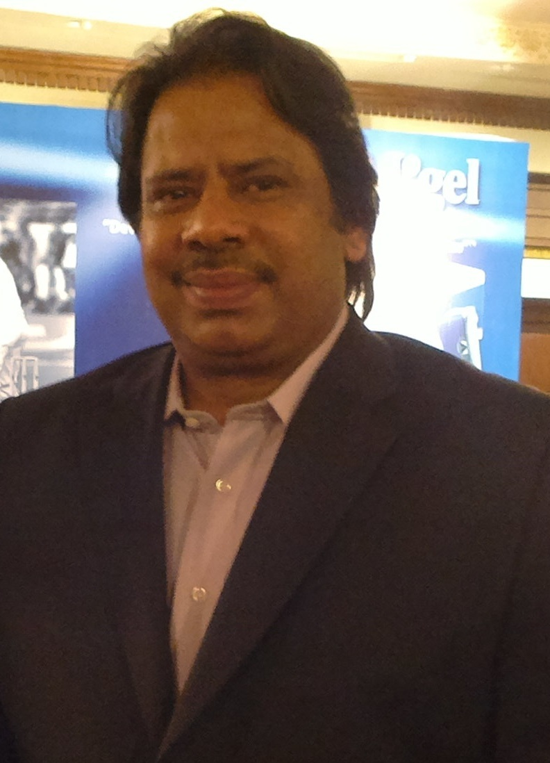 Jahangir Khan in Karachi by Faizan Munawar Varya